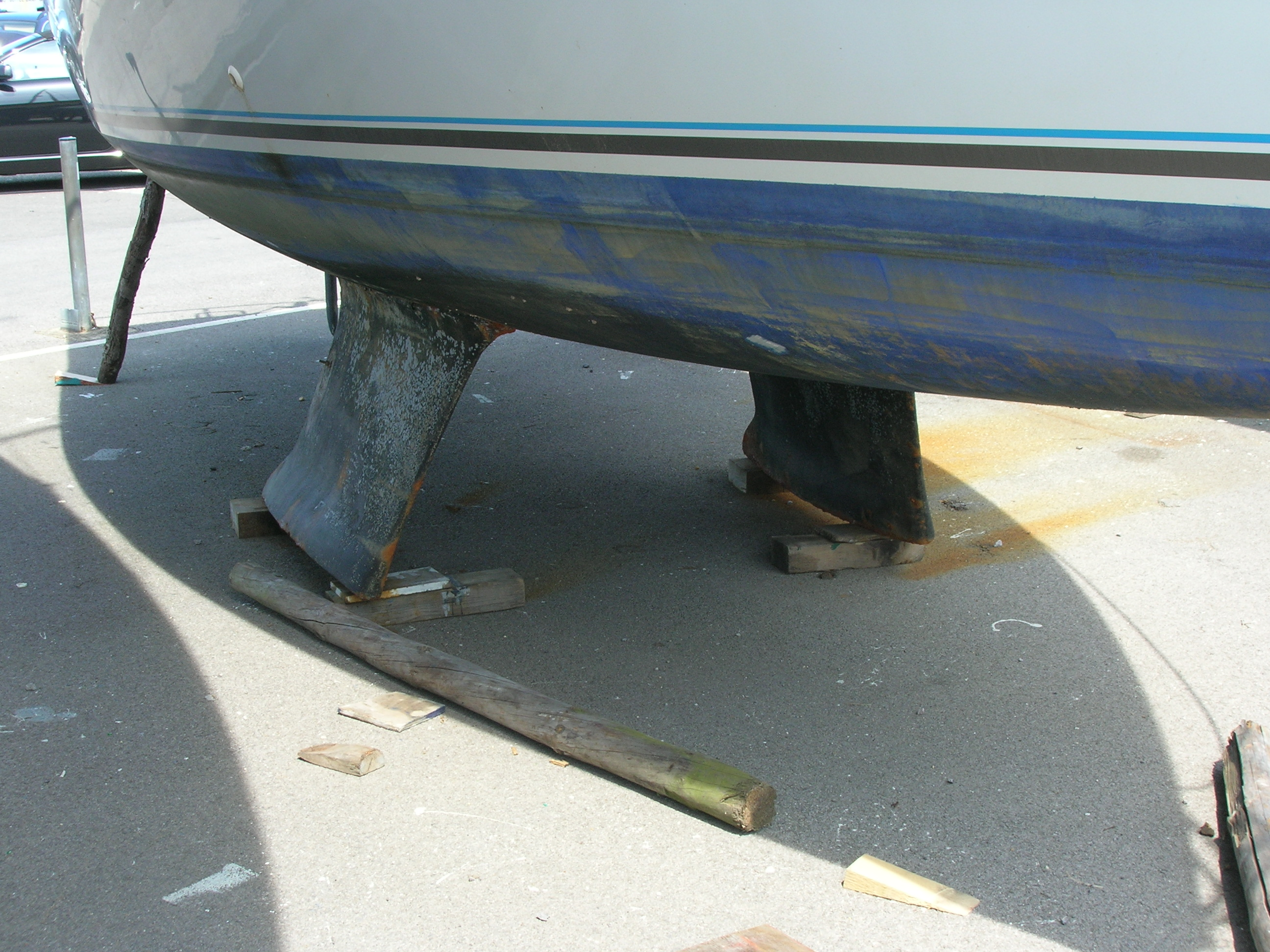 Double keel sailboat.